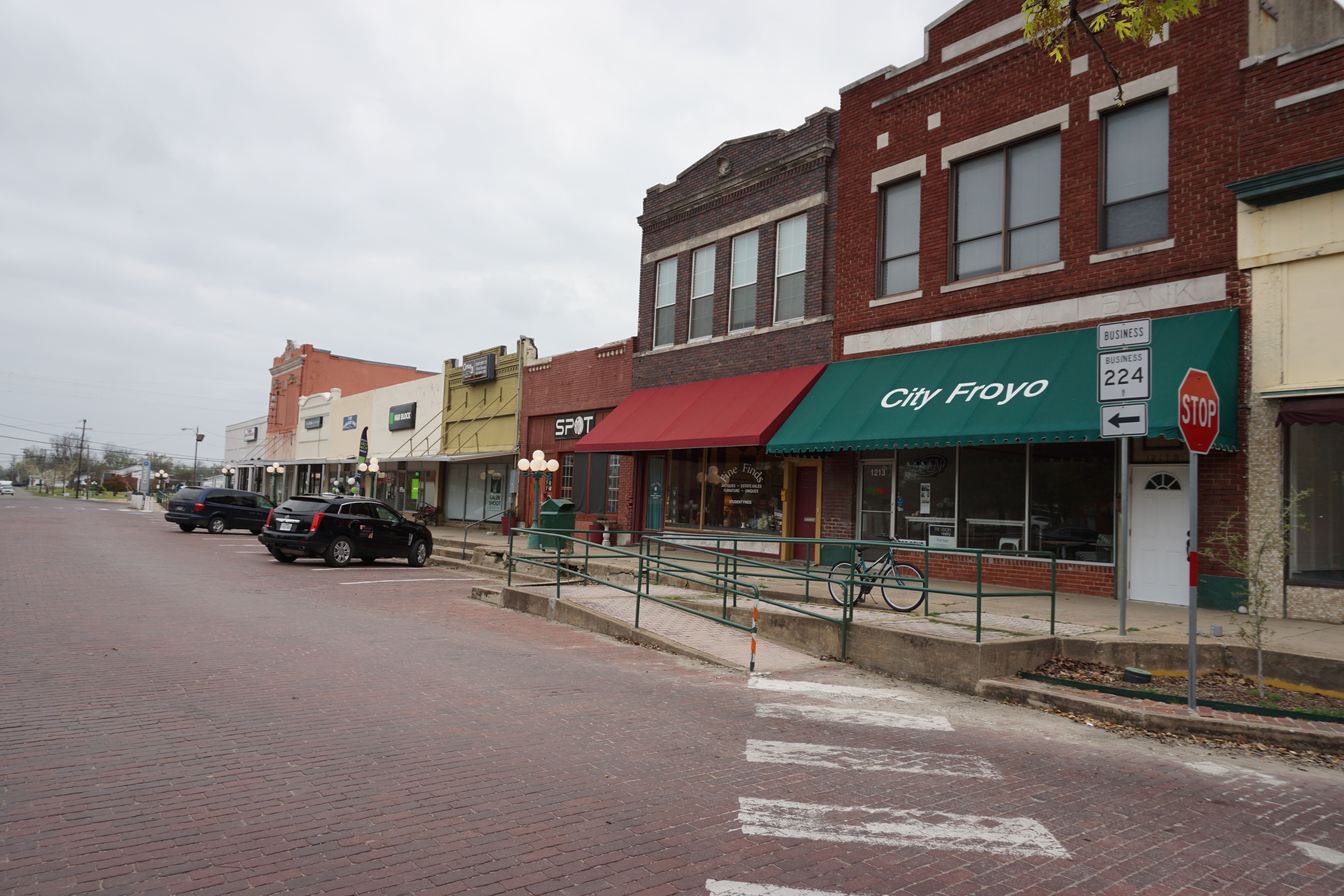 Washington Street in Commerce, Texas (United States).